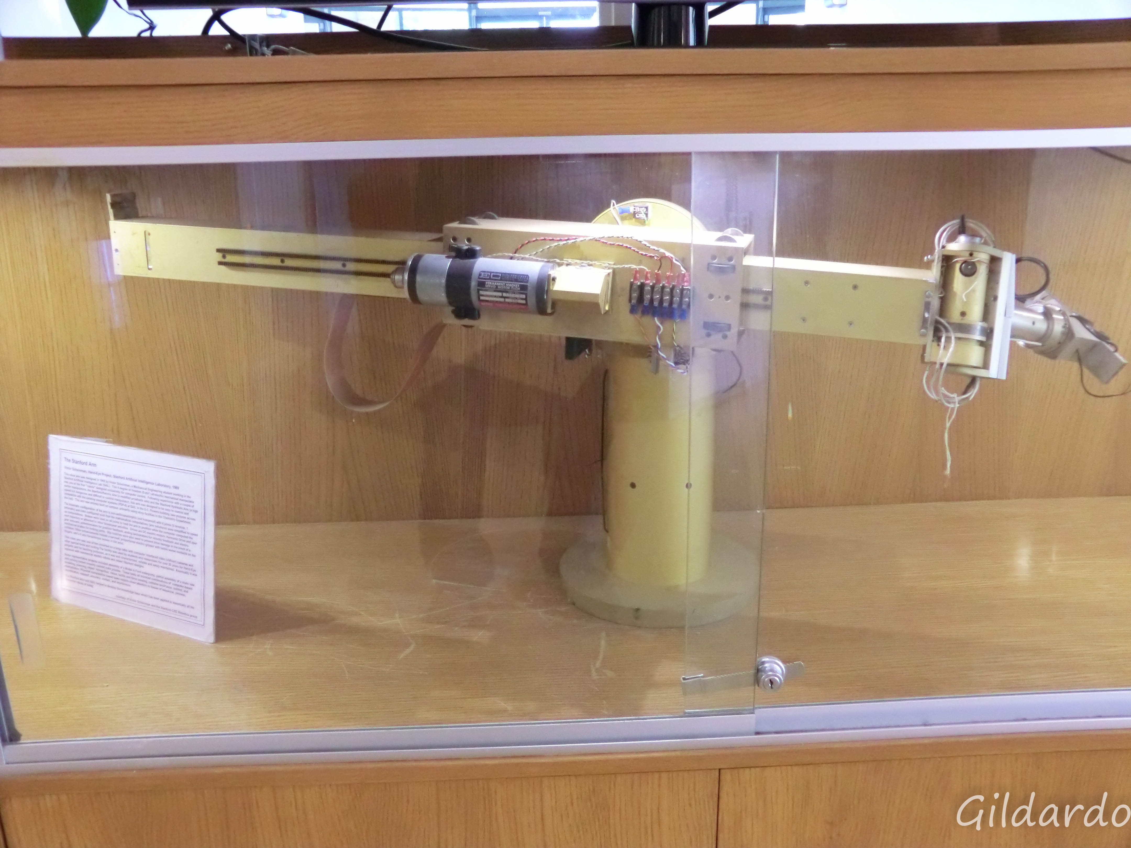 The Stanford arm, the first electric robot with closed-form arm solution, Invented and built by Victor Scheinman while at Stanford University